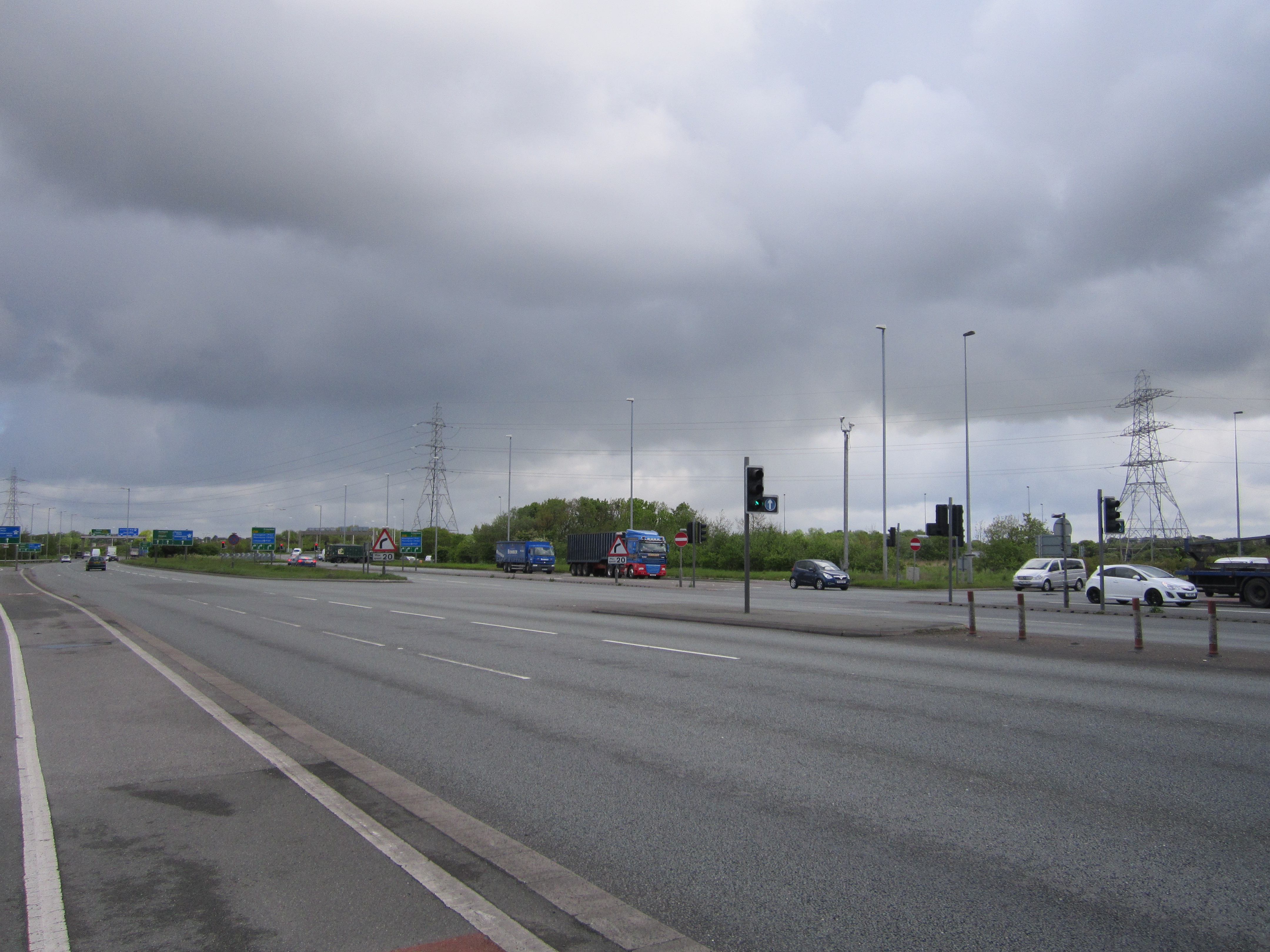 Photo taken at Switch Island road junction, Merseyside, England.